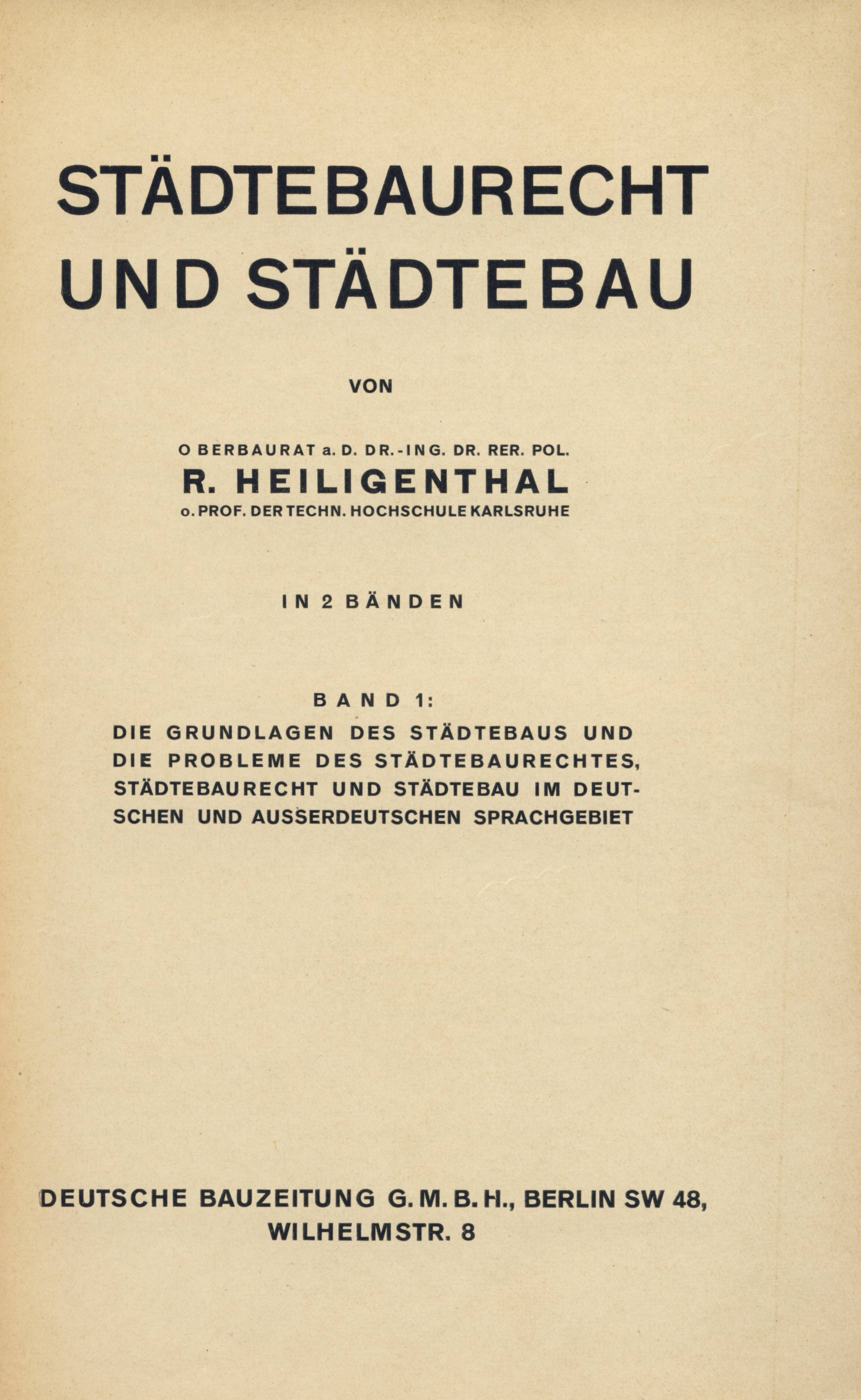 Cover: Roman Heiligenthal, Städtebaurecht und Städtebau. Berlin 1929